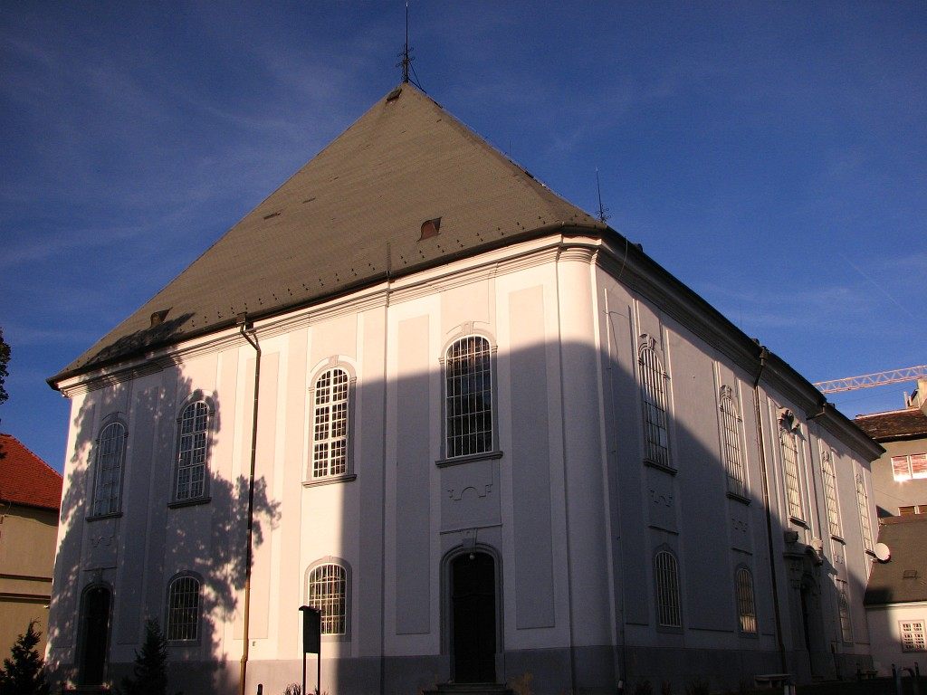 Great Evangelical Church in Bratislava Slovakia. It was built by local builder Matej Walch on a simple one-hall floorplan. The church lacks bell tower since it was built before the issue of Patent of Toleration which allowed protestants to build churches with towers and more complicated floorplans and ornamentation.